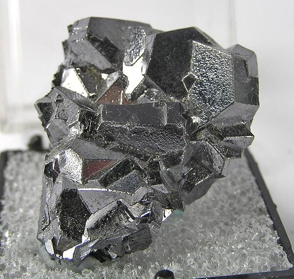 Galena Locality: Naica, Municipio de Saucillo, Chihuahua, Mexico (Locality at ) Size: 2.7 x 2.4 x 1.6 cm. Look at the fabulous luster on this cluster of super-sharp crystals (actually a compound crystal) of galena from Naica! Naica is known for its fluorites, often in association with sphalerite and galena. But you occasionally get these fine standalone galenas as well.